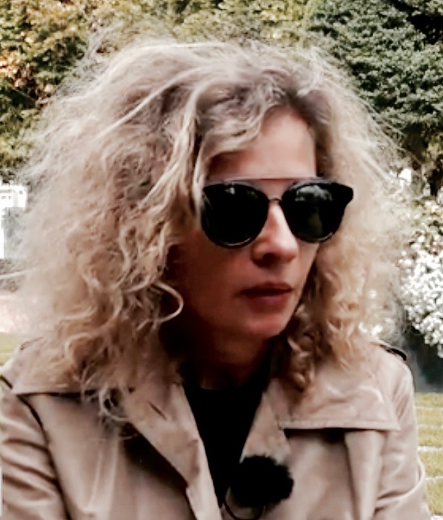 Eva Ionesco, French writer